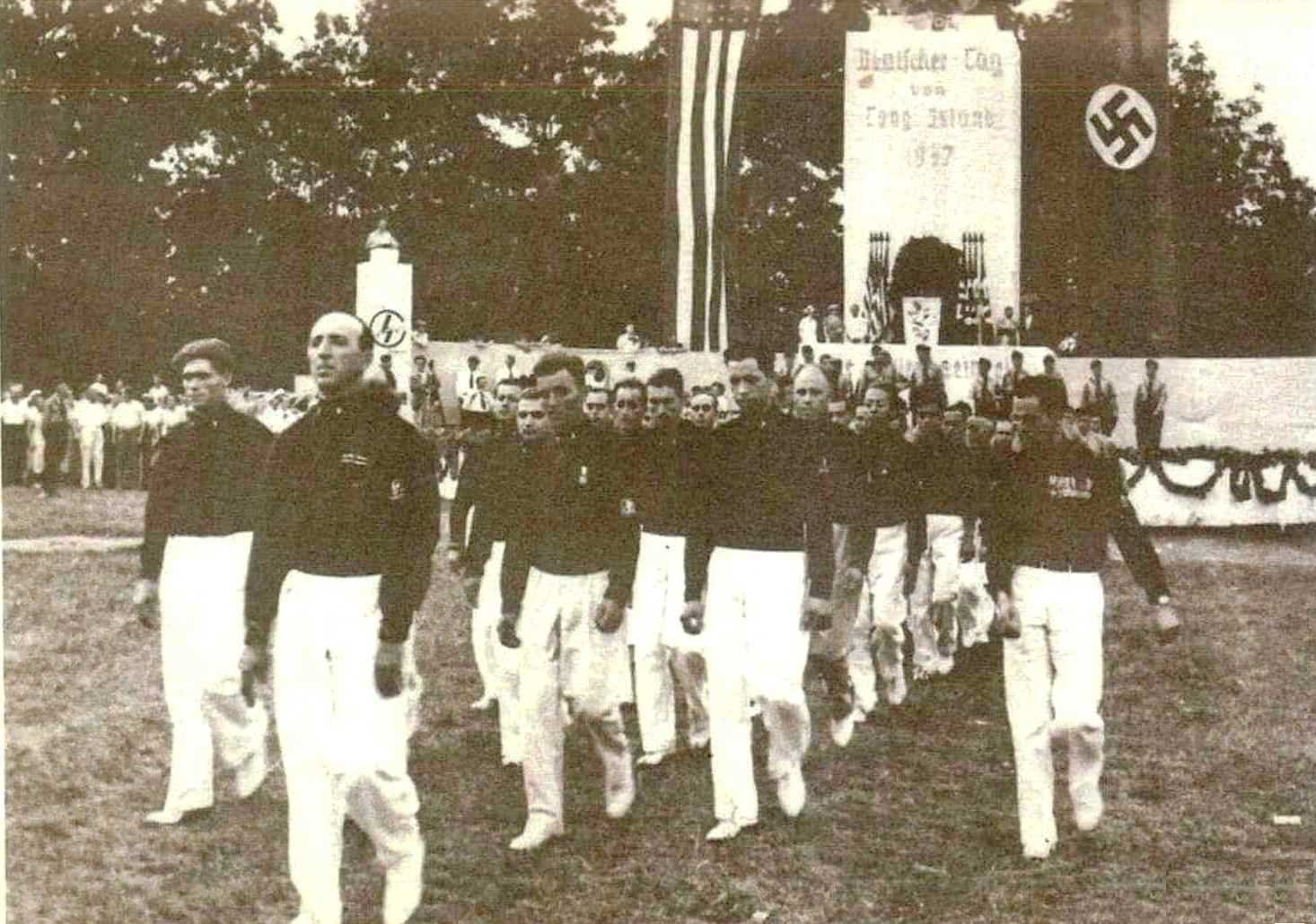 Blackshirts marching at Camp Siegfried, in Yaphank, New York, on Long Island, in the 1930s. The holiday camp was owned by the German American Bund, an American Nazi group, and was run by the German American Settlement League. It featured the ideology and symbols of Nazism and Fascism.